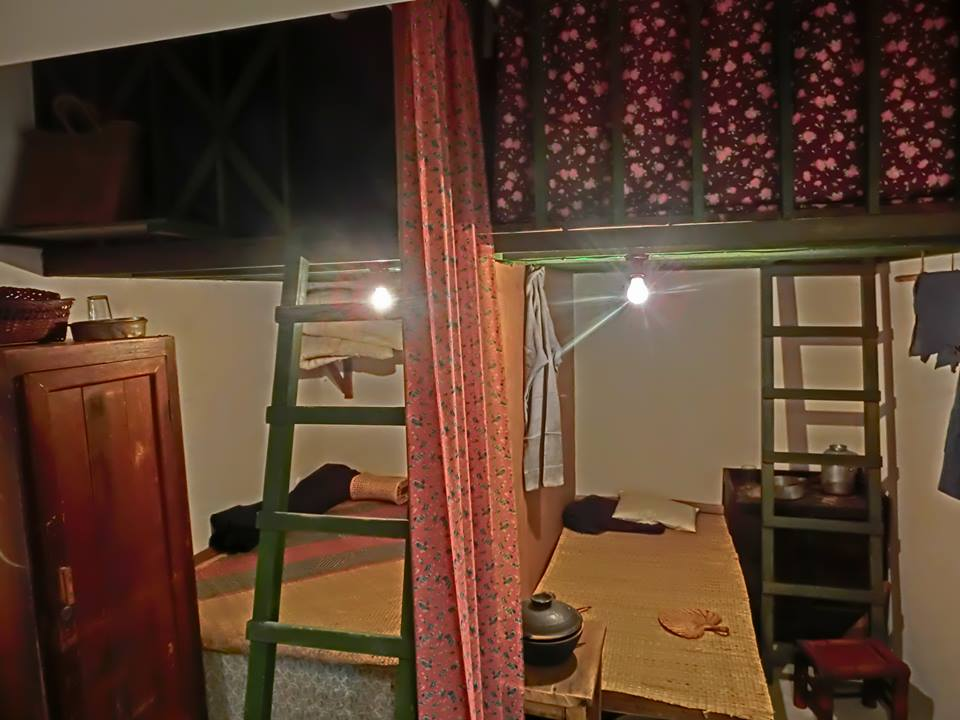 Mei Ho House exhibition 2013 - Hong Kong residential building history 間板房 room interior 板間房 partition